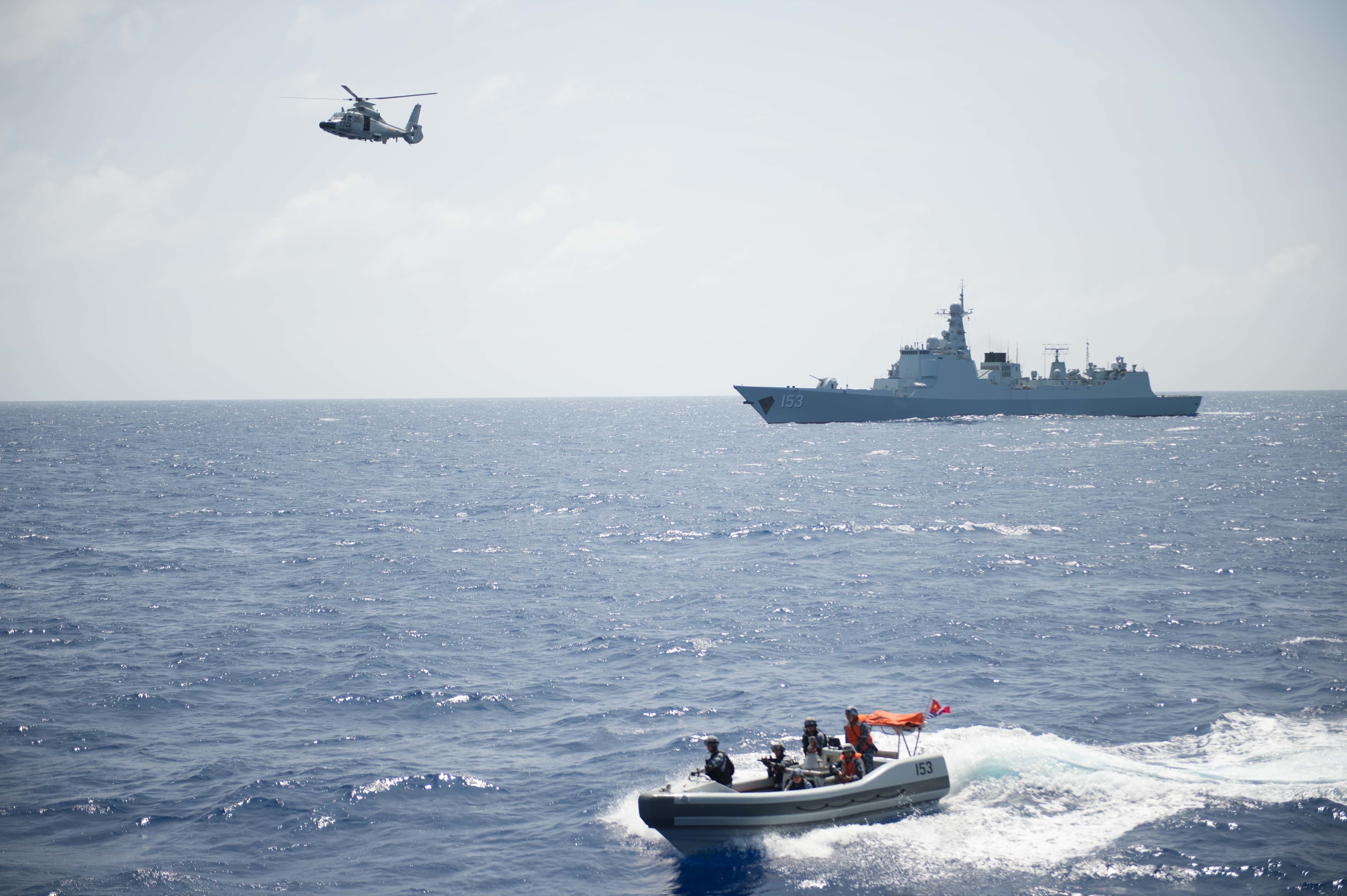 PACIFIC OCEAN (July 20, 2016) - Chinese navy sailors from the guided-missile destroyer Xian (153) are transported to the guided-missile destroyer USS Stockdale (DDG 106) for a VBSS (Visit, board, search, and seizure) exercise during Rim of the Pacific 2016. Twenty-six nations, 40 ships and submarines, more than 200 aircraft and 25,000 personnel are participating in RIMPAC from June 30 to Aug. 4, in and around the Hawaiian Islands and Southern California. The world's largest international maritime exercise, RIMPAC provides a unique training opportunity that helps participants foster and sustain the cooperative relationships that are critical to ensuring the safety of sea lanes and security on the world's oceans. RIMPAC 2016 is the 25th exercise in the series that began in 1971. (U.S. Navy photo by Mass Communication Specialist 3rd Class David A. Cox/Released) Unit: DVIDS Hub DVIDS Tags: San Diego; Board; Search and Seizure; VBSS; Underway; Pacific Ocean; Chinese; guided-missile destroyer; NPASE; Sea and Anchor; Navy; Sailors; USS Stockdale; (DDG 106); Training; David Cox; RIMPAC; Rim of the Pacific; People's Republic of China; MC3; Visit; 3rd Fleet AOR; Great Green Fleet